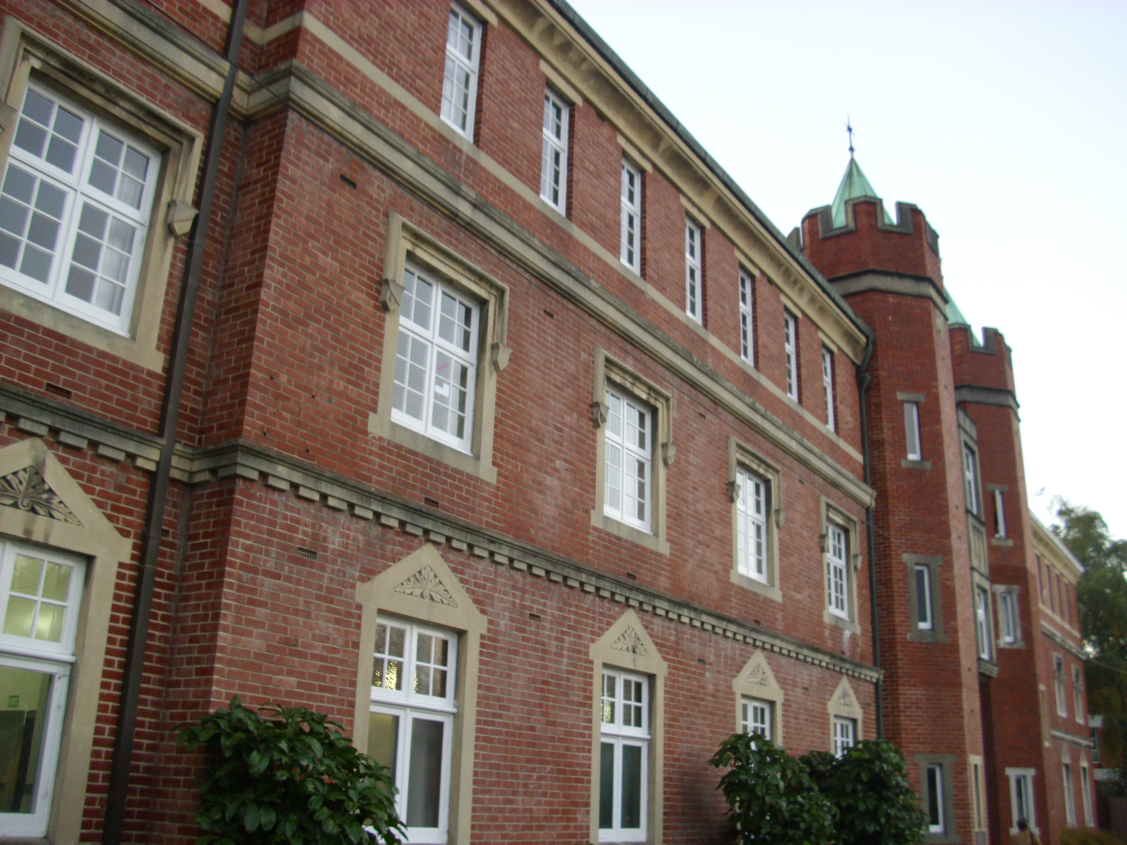 Front of Selwyn College, Otago